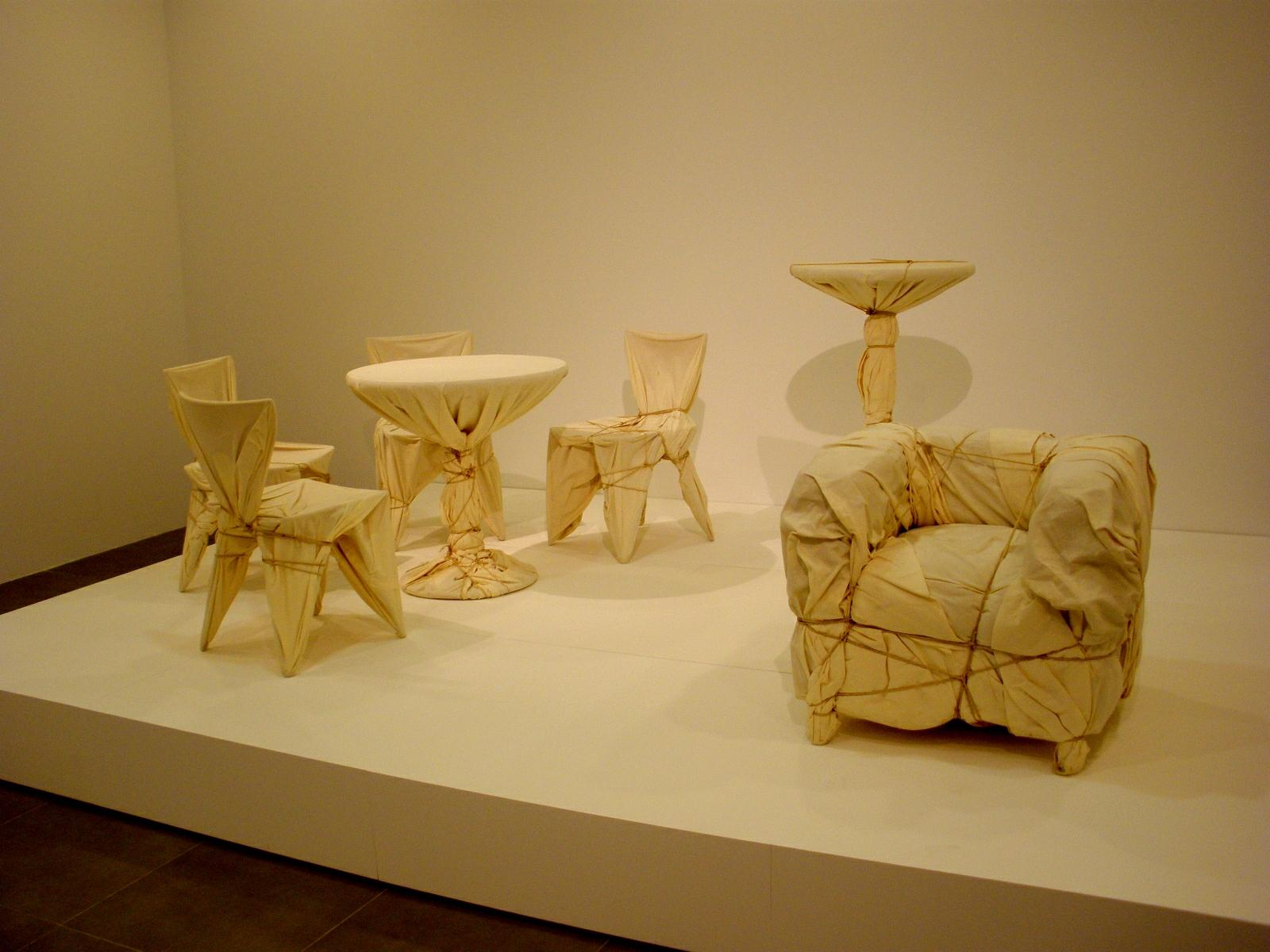 Exposición sobre Christo, Museo Würth La Rioja (Agoncillo, La Rioja, España).